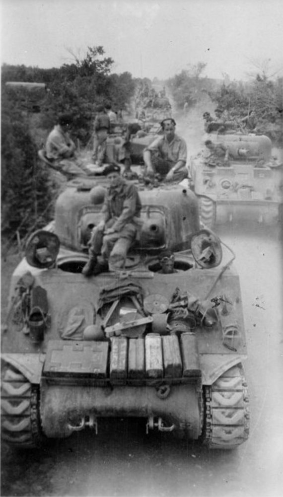 New Zealand 20th Armoured Regiment tanks and soldiers on the road to Trieste, Italy, during World War 2. Major Caldwell is sitting on the front tank's hatch. Denham is in the right hand tank. Photographer unidentified. New Zealand tanks and soldiers, Italy, during World War 2. New Zealand. Department of Internal Affairs. War History Branch :Photographs relating to World War 1914-1918, World War 1939-1945, occupation of Japan, Korean War, and Malayan Emergency. Ref: DA-14353-F. Alexander Turnbull Library, Wellington, New Zealand.